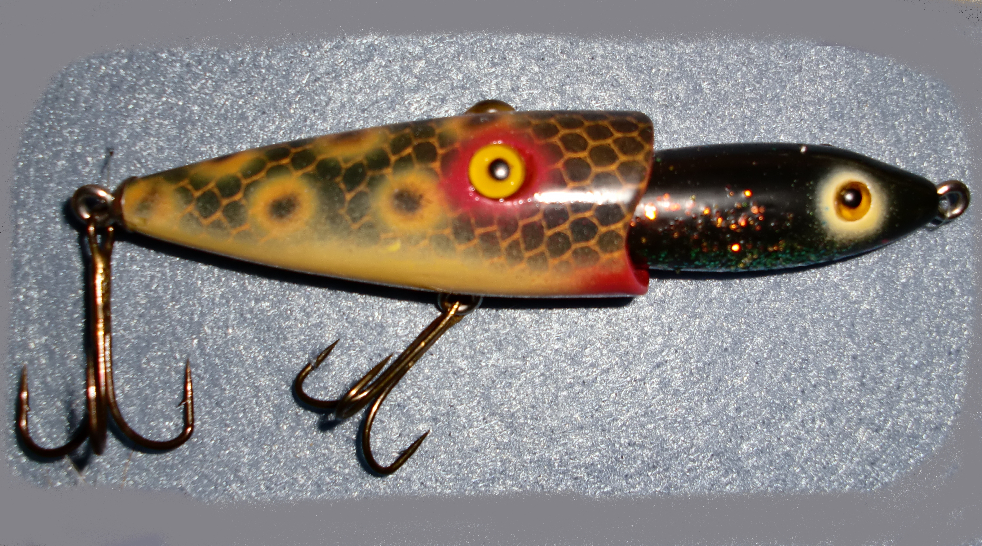 creative fishing lure, hand made from wood and hand painted